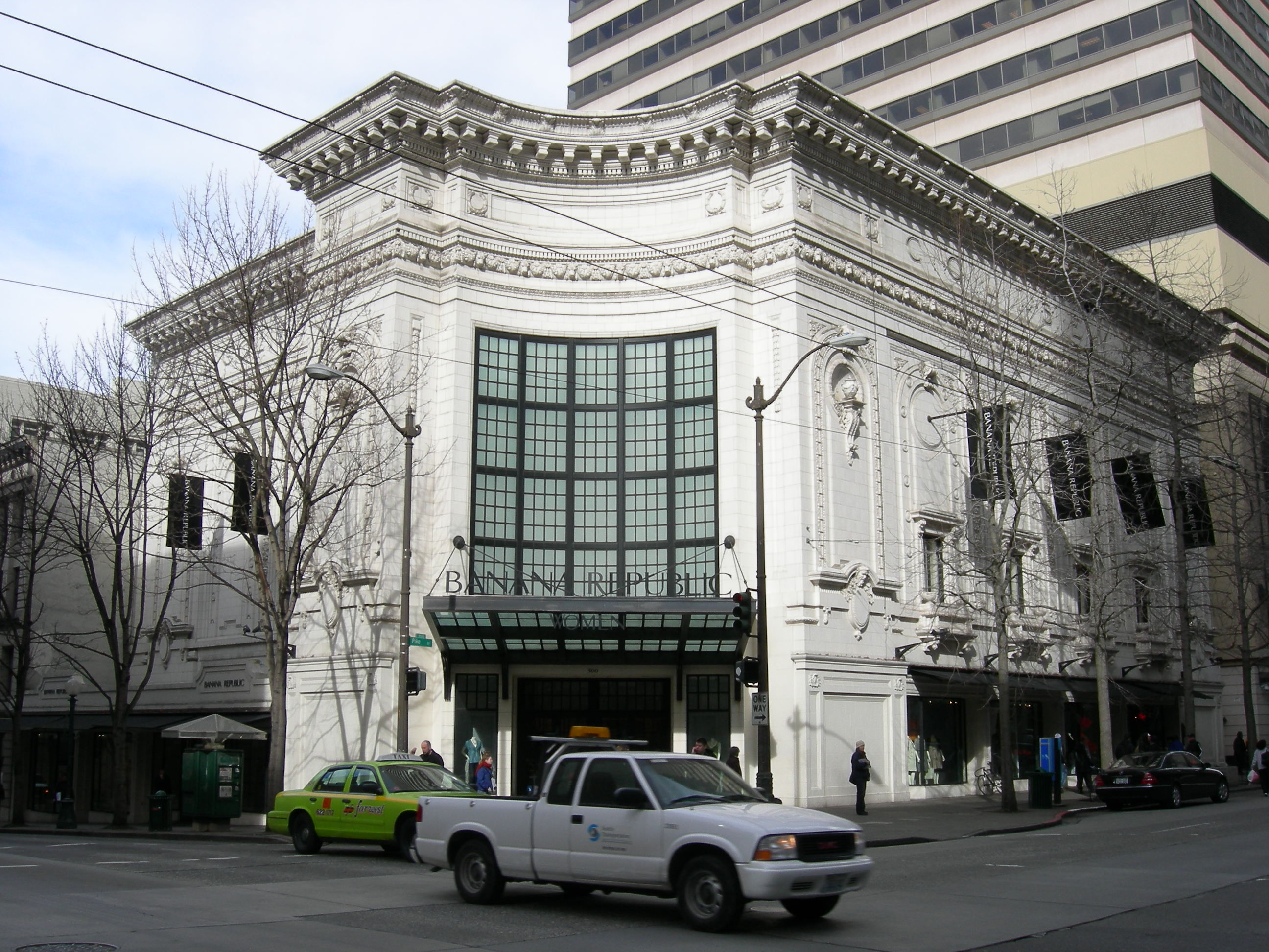 The former Coliseum Theater ("the first of the world's movie palaces"[1]), constructed 1914–1916, designed by B. Marcus Priteca), Seattle, Washington, USA. The building, now a Banana Republic store, is on the National Register of Historic Places, ID #75001854.